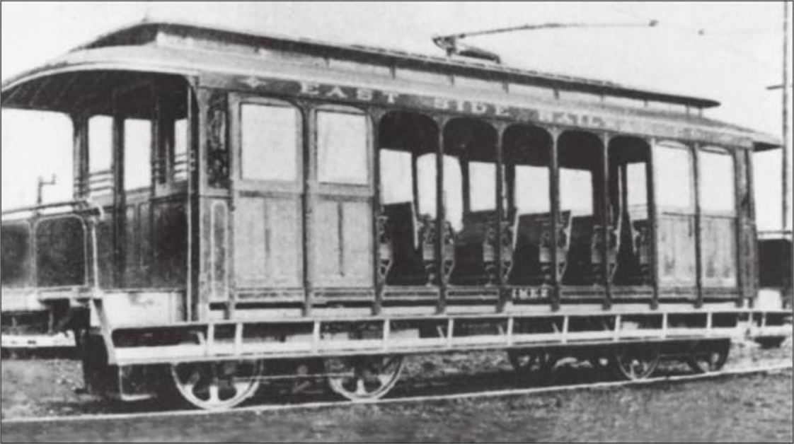 The streetcar Inez, as it appeared in May, 1893. Ran on lines in Portland, OR.